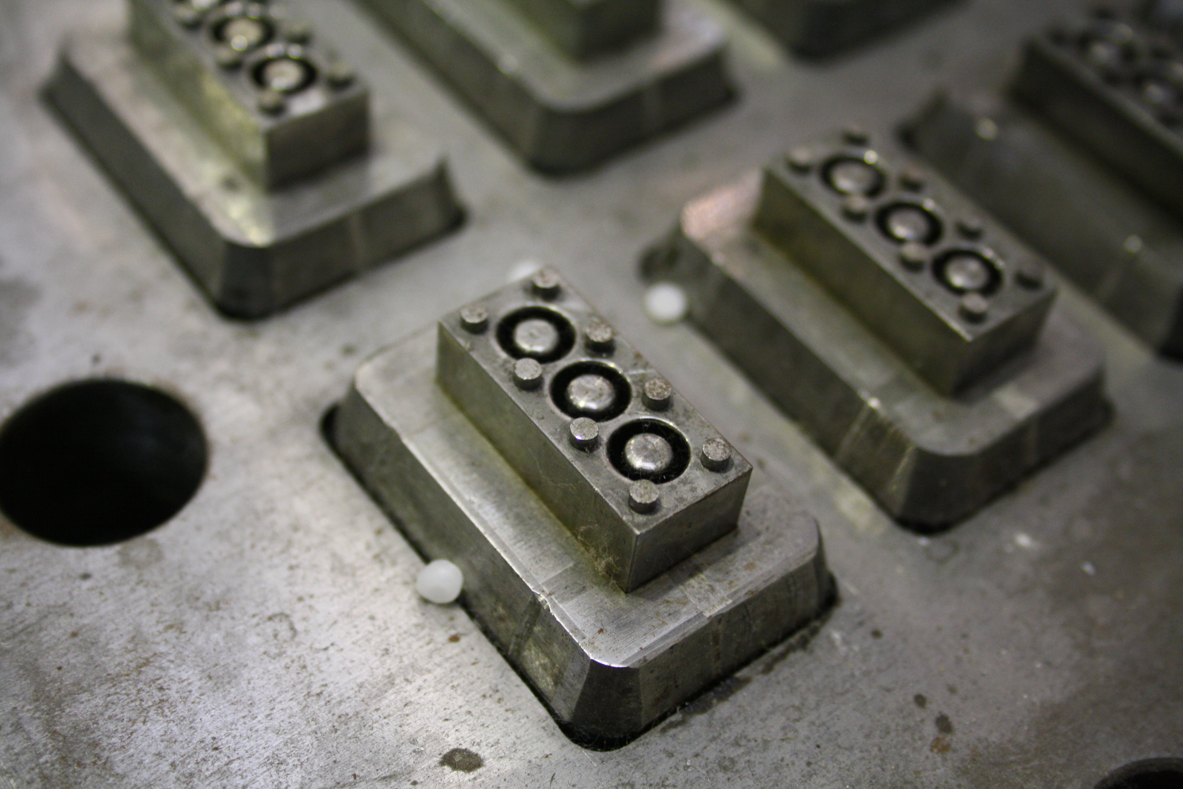 Detail of a Lego injection mold. Photo taken at "Landesmuseum für Technik und Arbeit" at Mannheim, Germany (Mannheim State Museum for Engineering and Work)